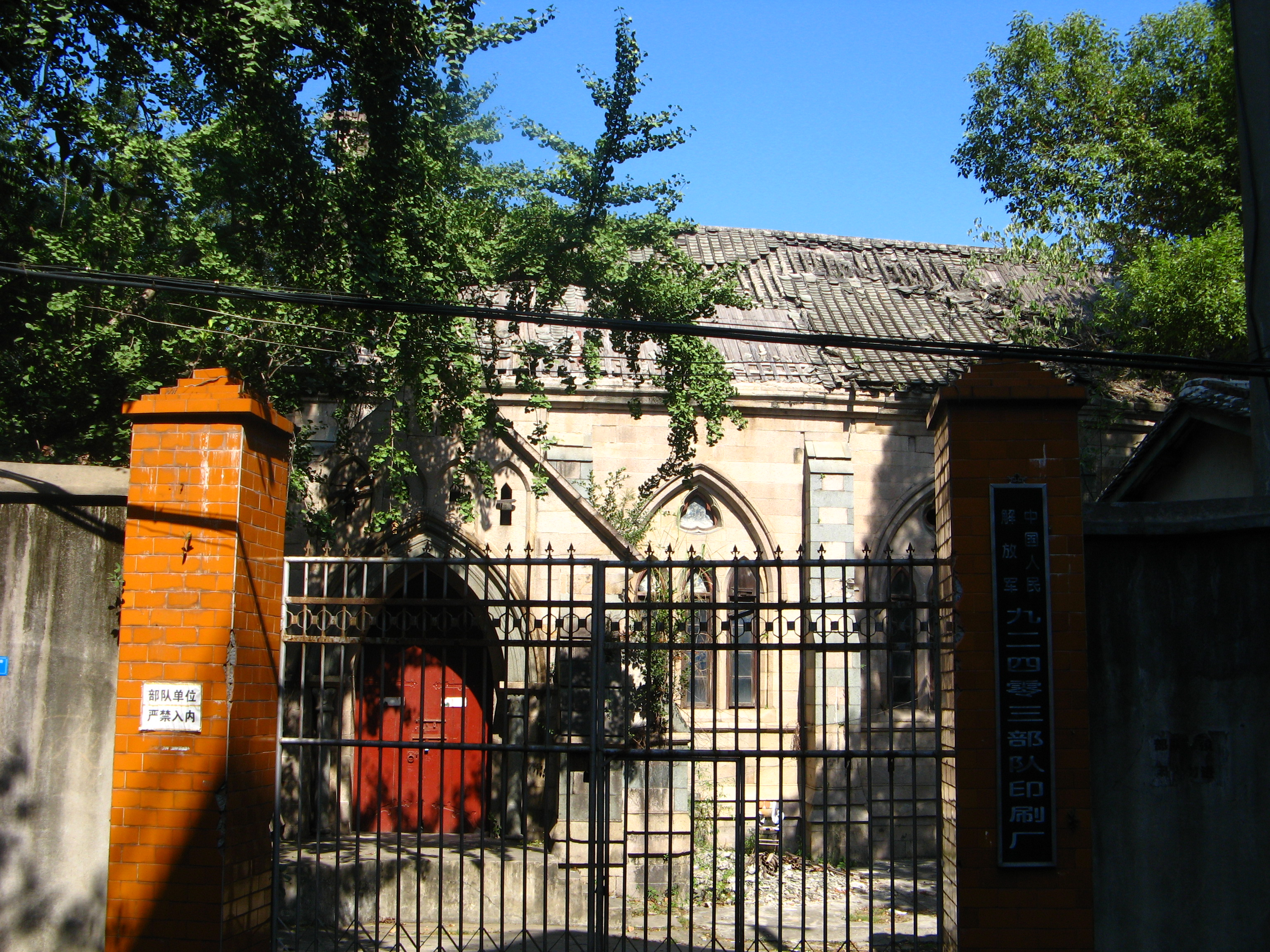 St. John's Church, Fuzhou